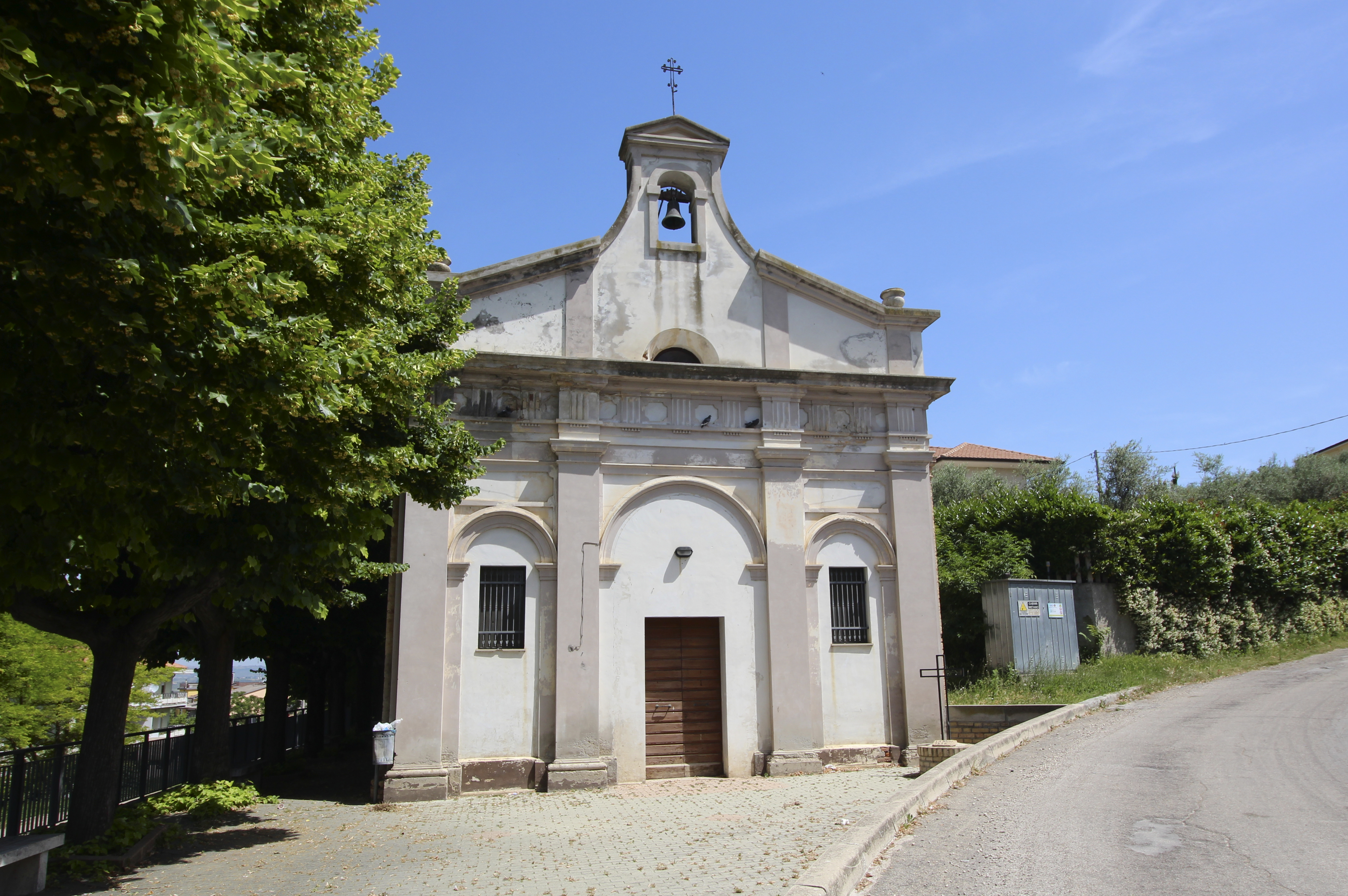 Church San Rocco, Collecorvino, Province of Pescara, Abruzzo, Italy